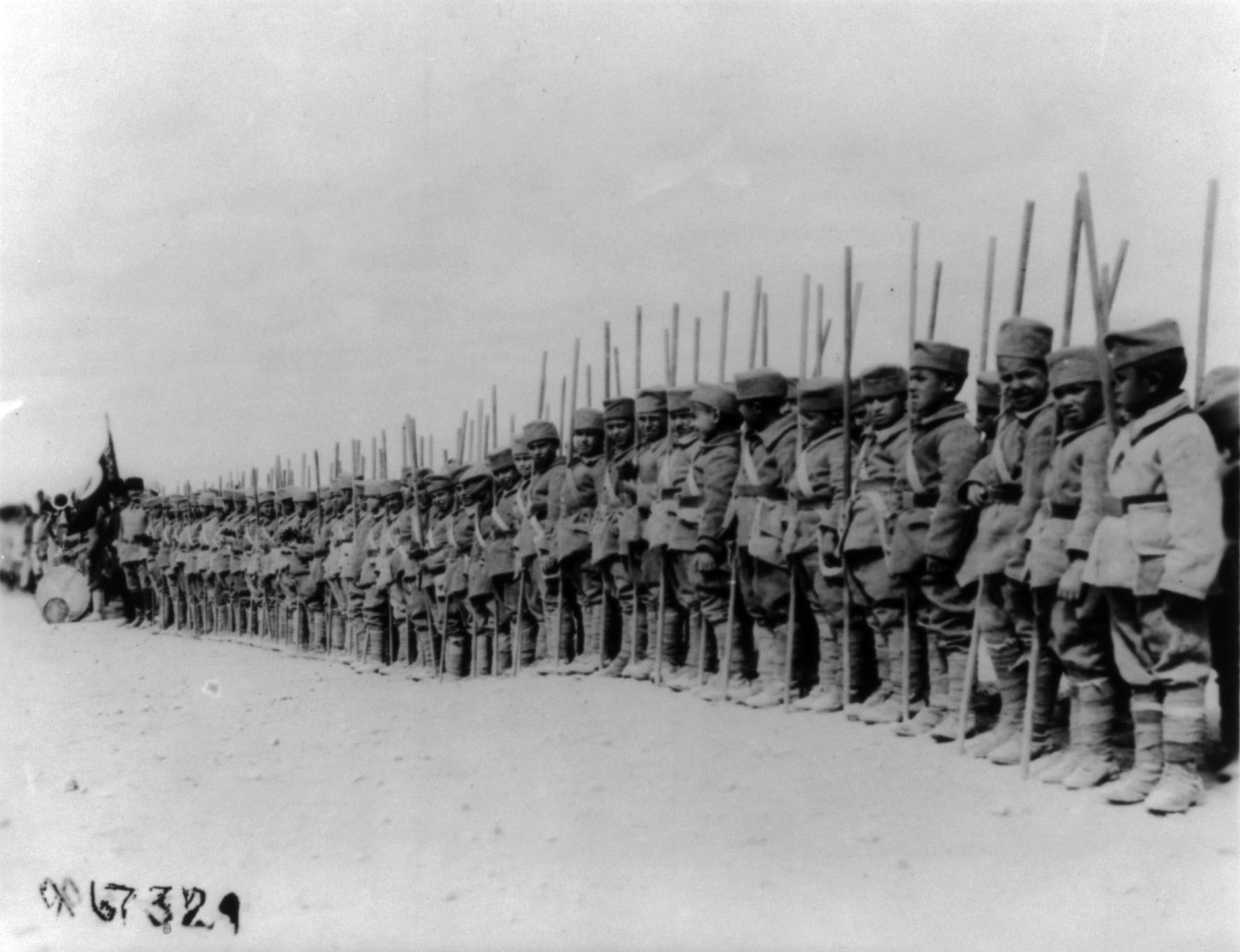 Boys from the Turkish orphanage at Ezerum waiting for the coming of General Harbord's party at Ezerum, Turkey, Sept. 25, 1919